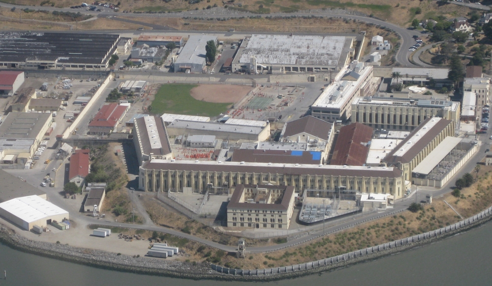 San Quentin State Prison, CA